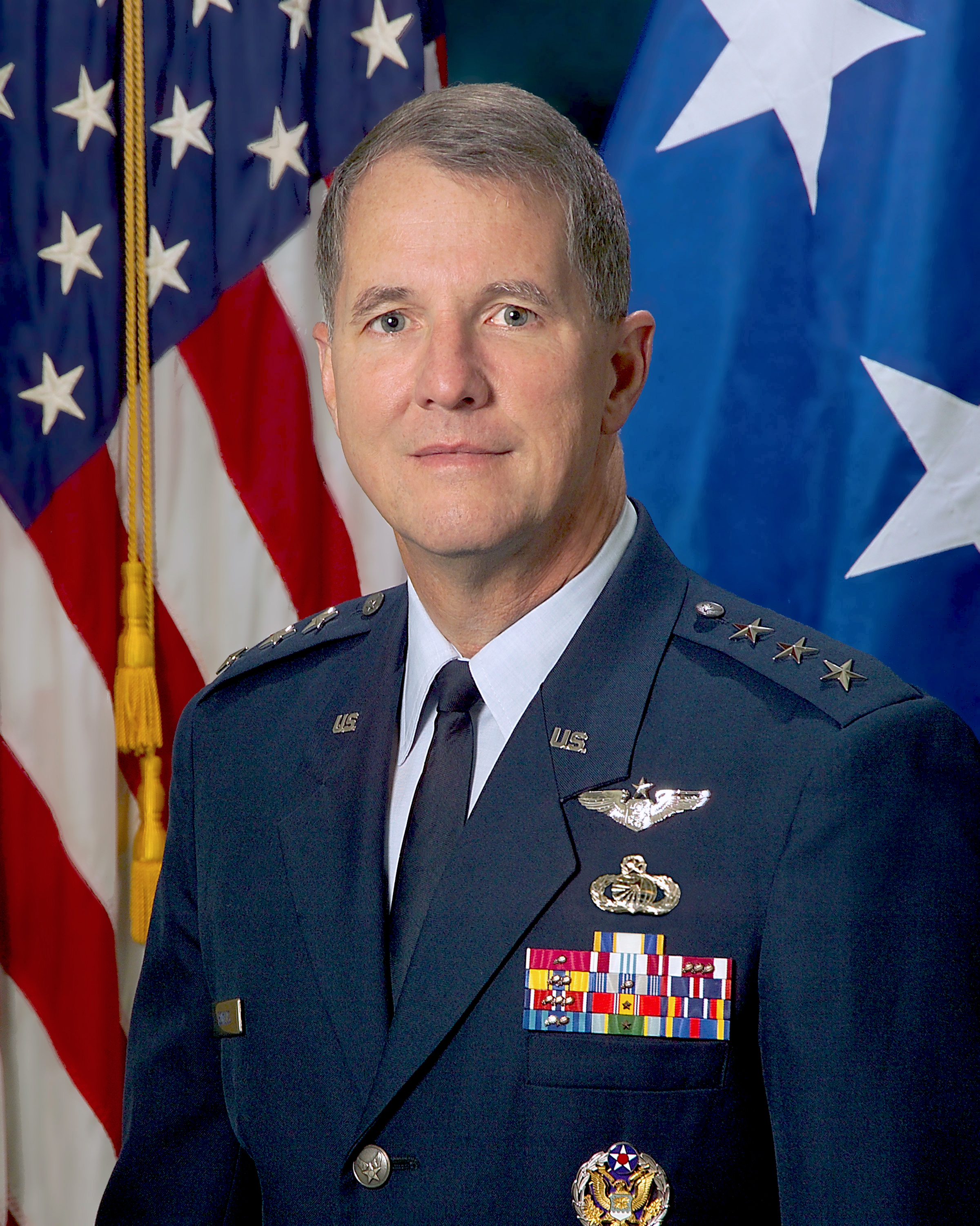 US Government Public official image